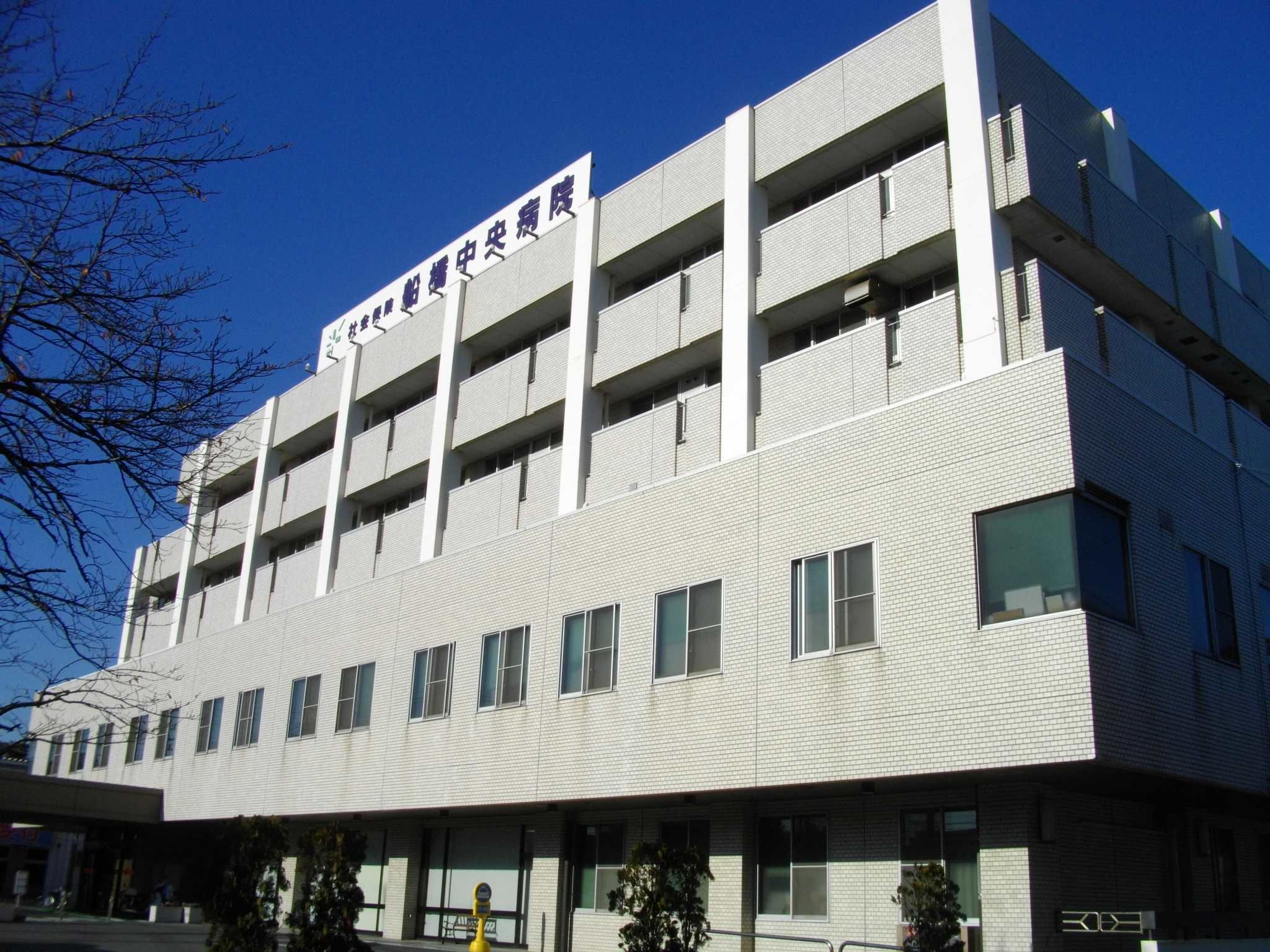 Social Insurance Funabashi Central Hospital